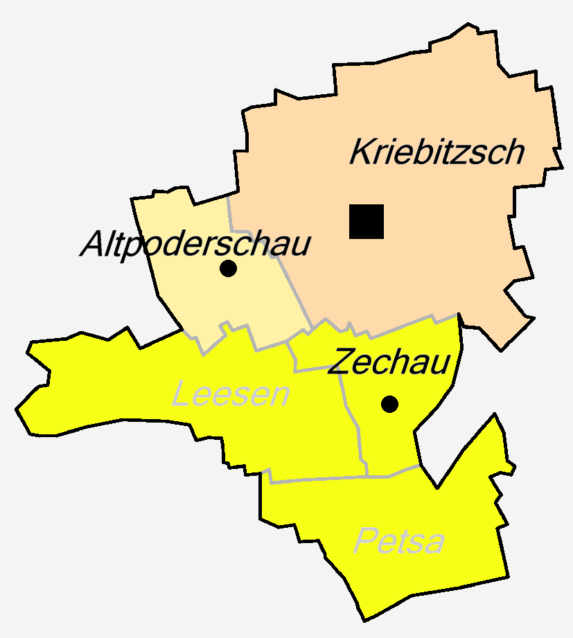 District-Map of Kriebitzsch in Thuringia.